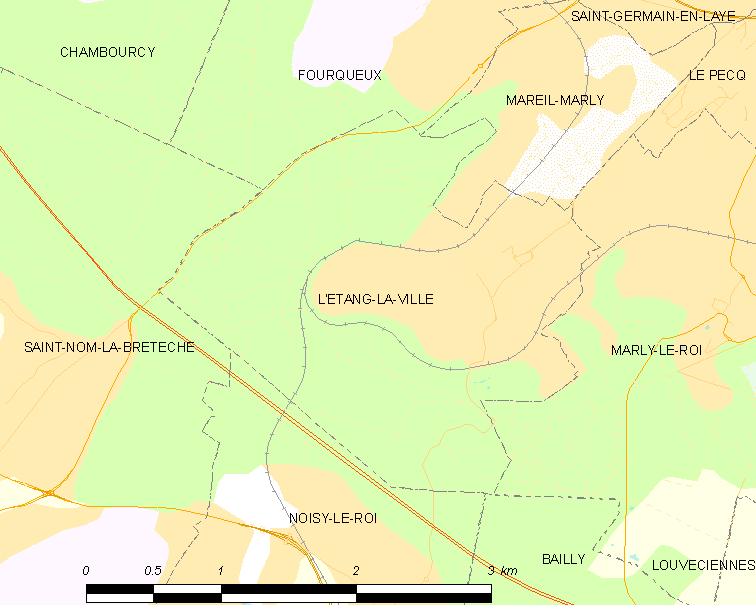 Map of French municipality L'Étang-la-Ville